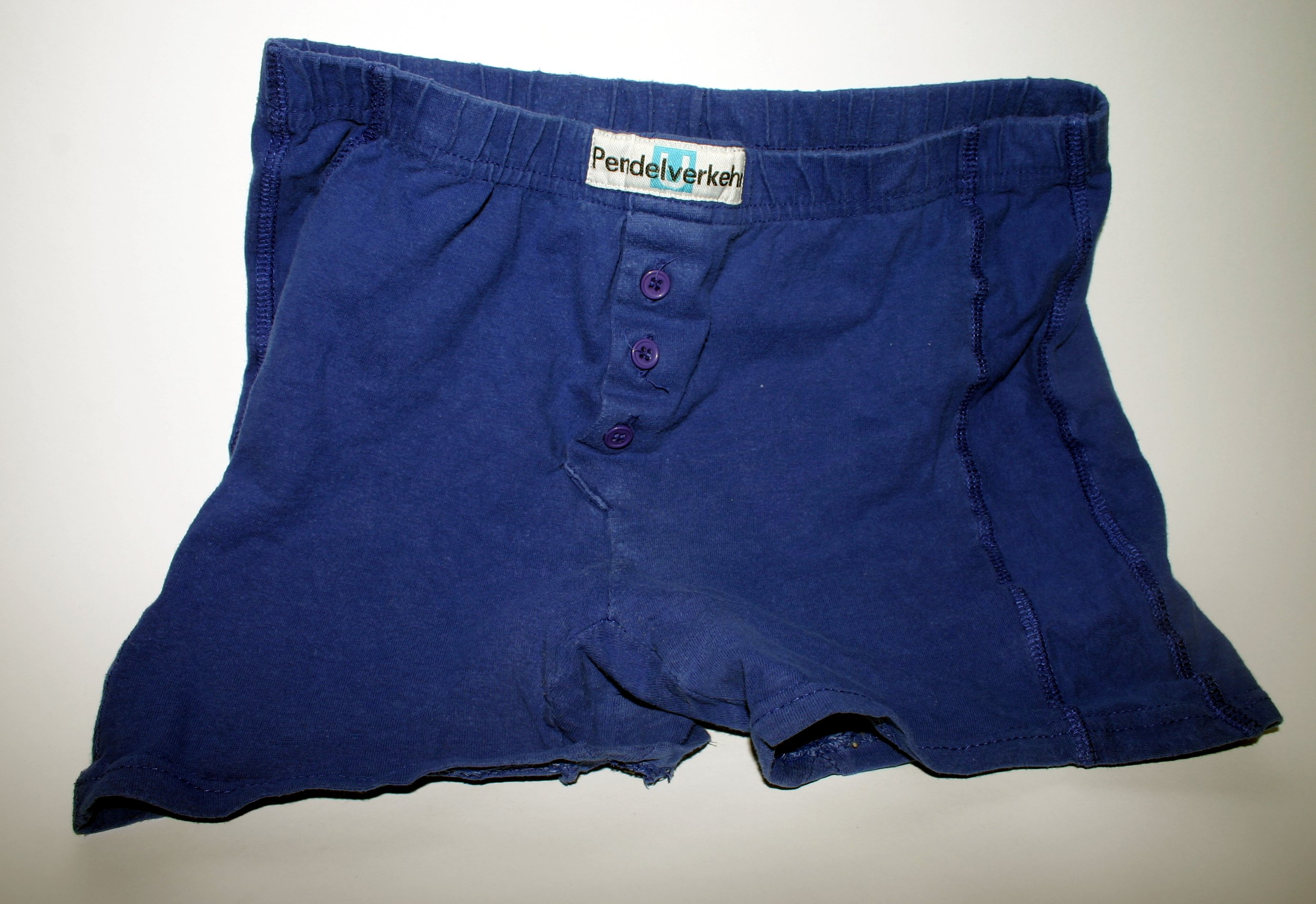 Jcornelius' boxer shorts with a "Pendelverkehr" label. (Location: Category:Wikipedia Workshop Cologne 2006)